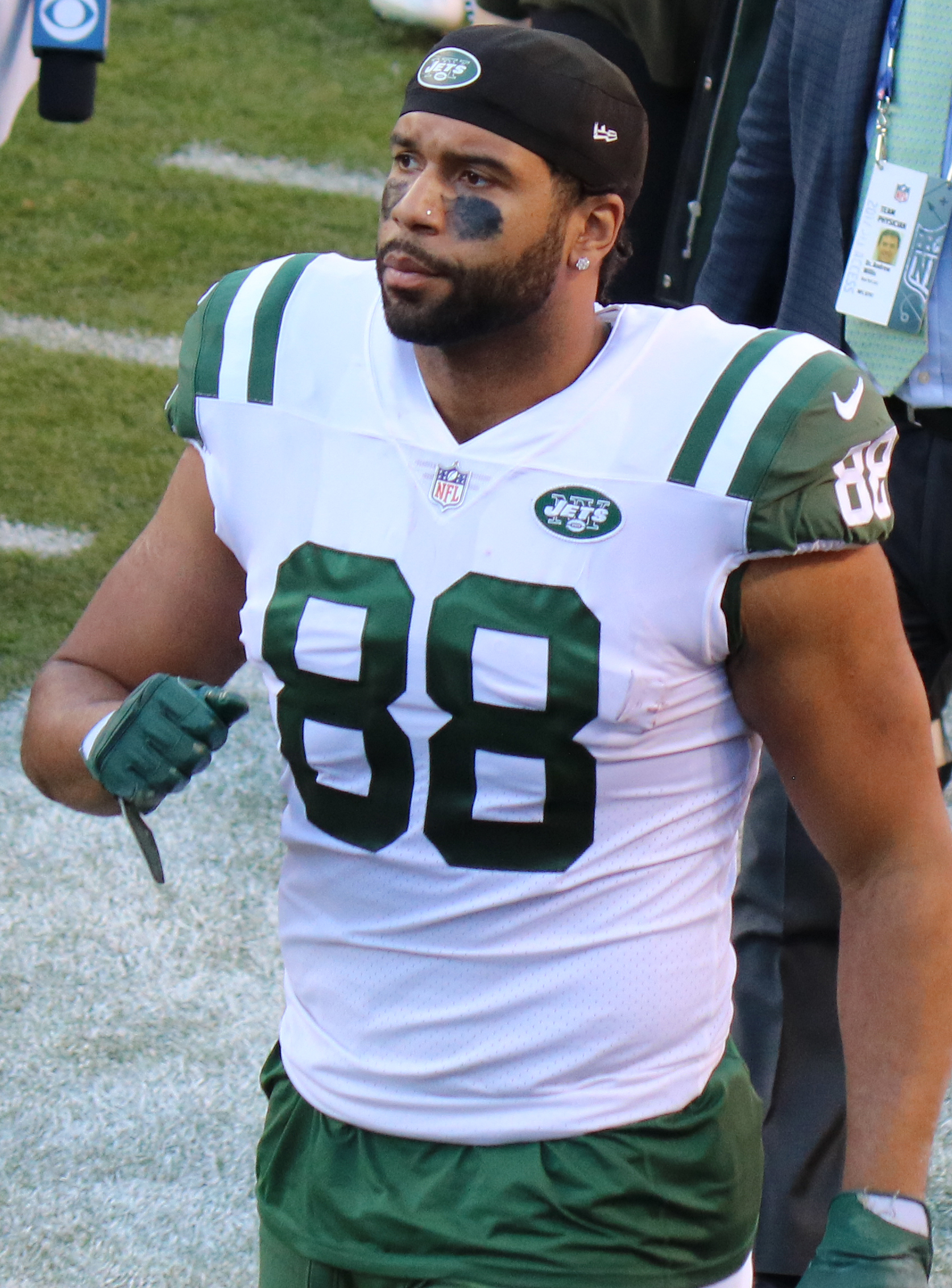 Austin Seferian-Jenkins, a National Football League player.